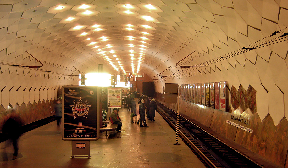 Budynok Rad Station